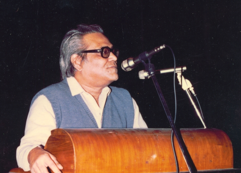 Prof. Amar Nath Bhaduri